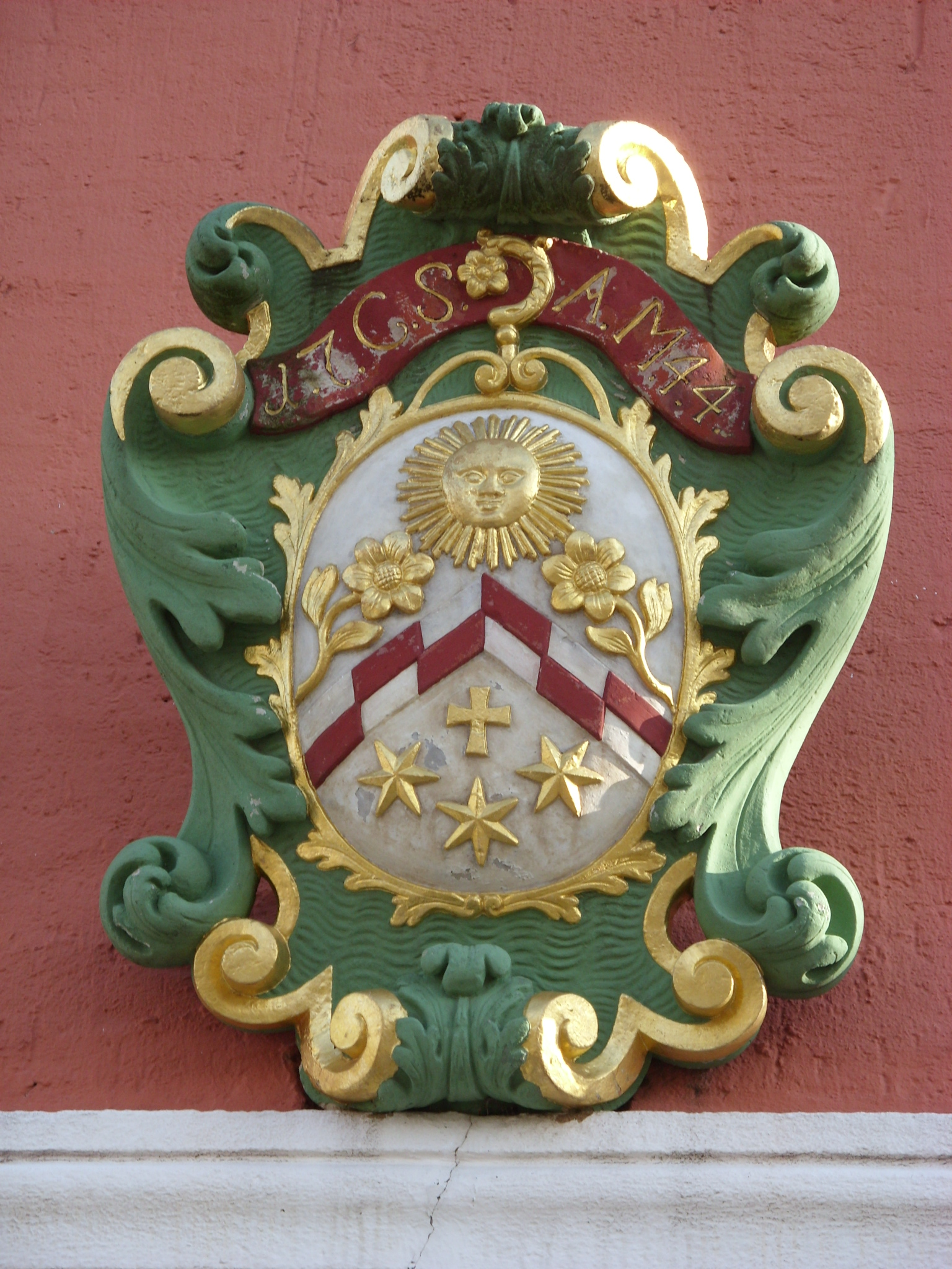 Church in Nebelschütz/Njebjelčicy, Bautzen district. Hornjoserbsce: Cyrkej w Njebjelčicach, wokrjes Budyšin.